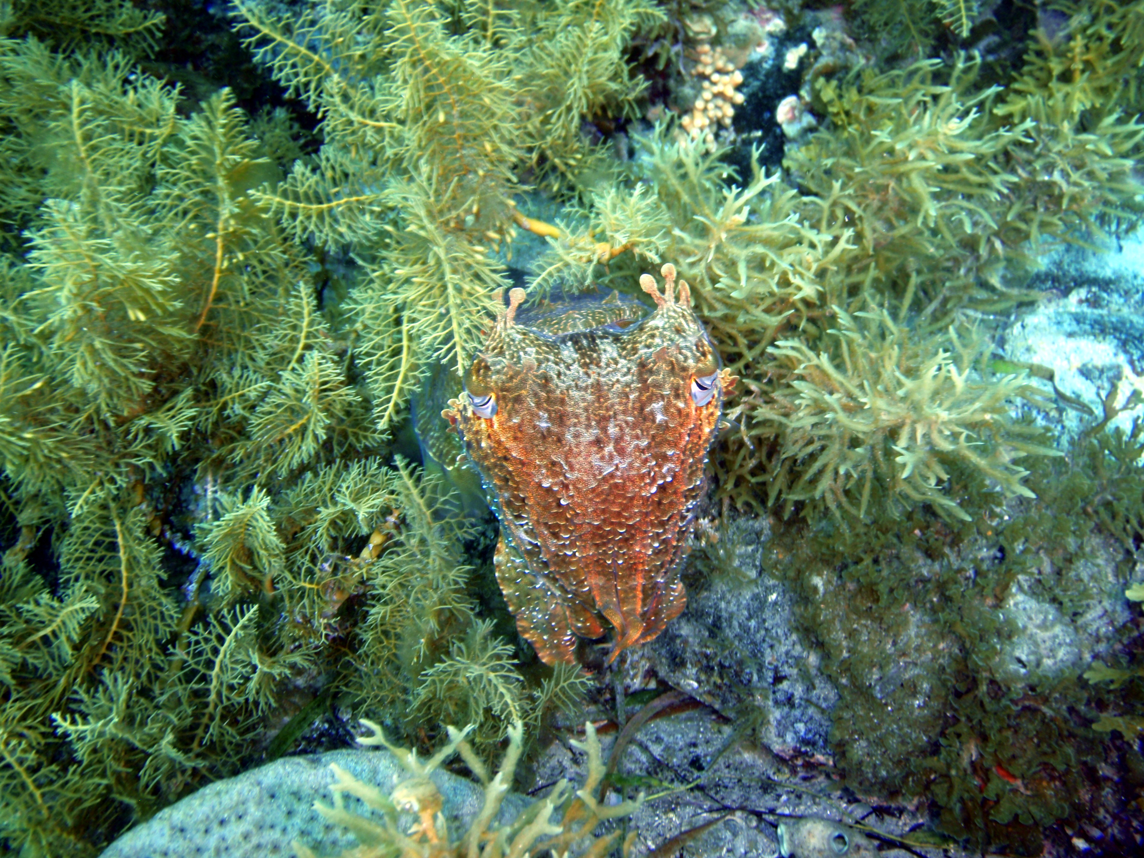 Giant cuttlefish Sepia apama at the point at Second Valley, South Australia